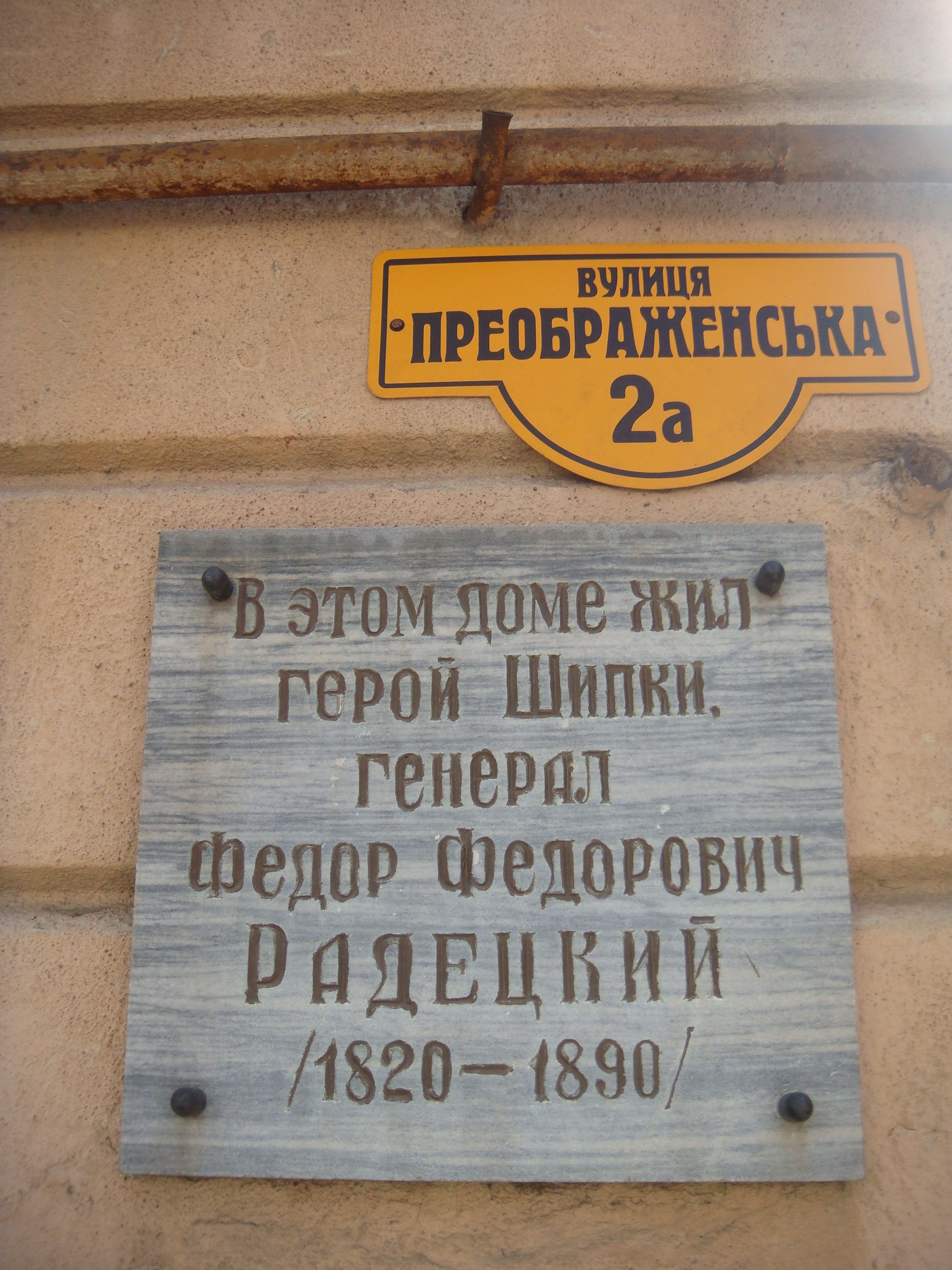 Memorial plate on the house in which in 1890-1891 lived Russian Imperial Army General Fedor Radetsky in Odessa